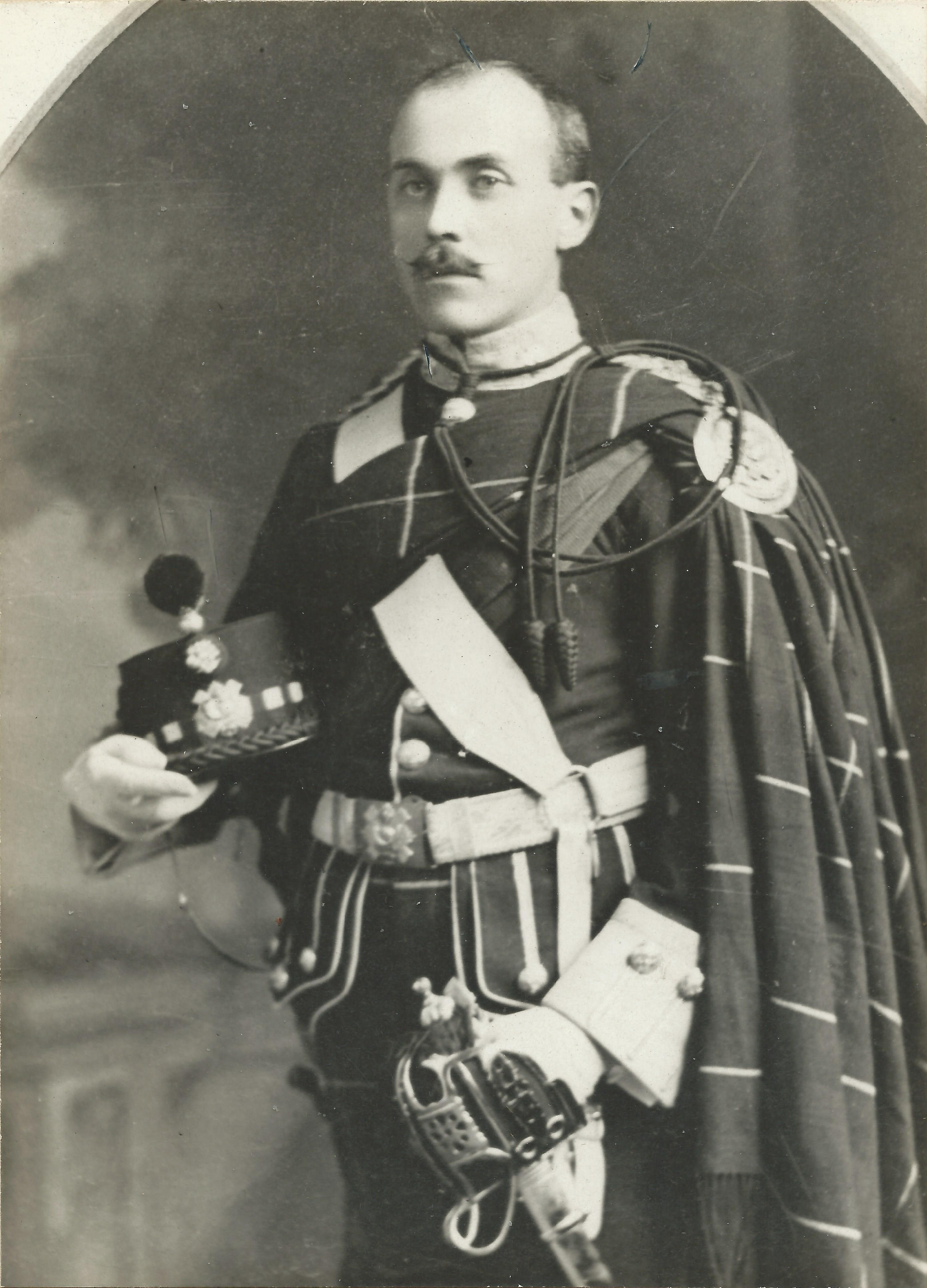 James Hoey Craigie